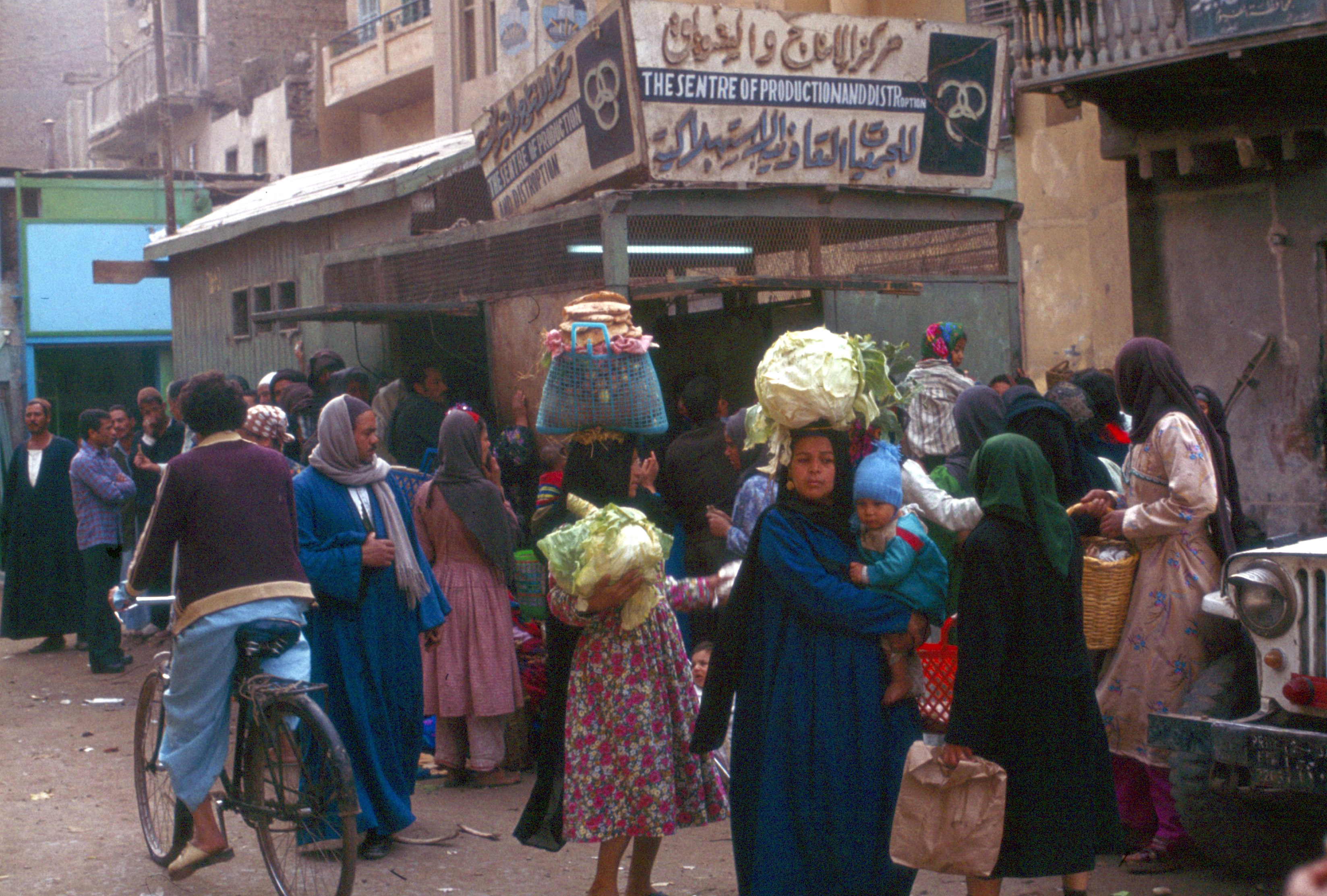 Al-Fayyūm in Egypt